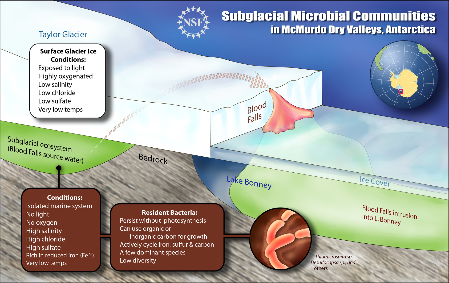 A schematic cross-section of Blood Falls showing how subglacial microbial communities have survived in cold, darkness and absence of oxygen for a million years in McMurdo Dry Valleys, Antarctica.